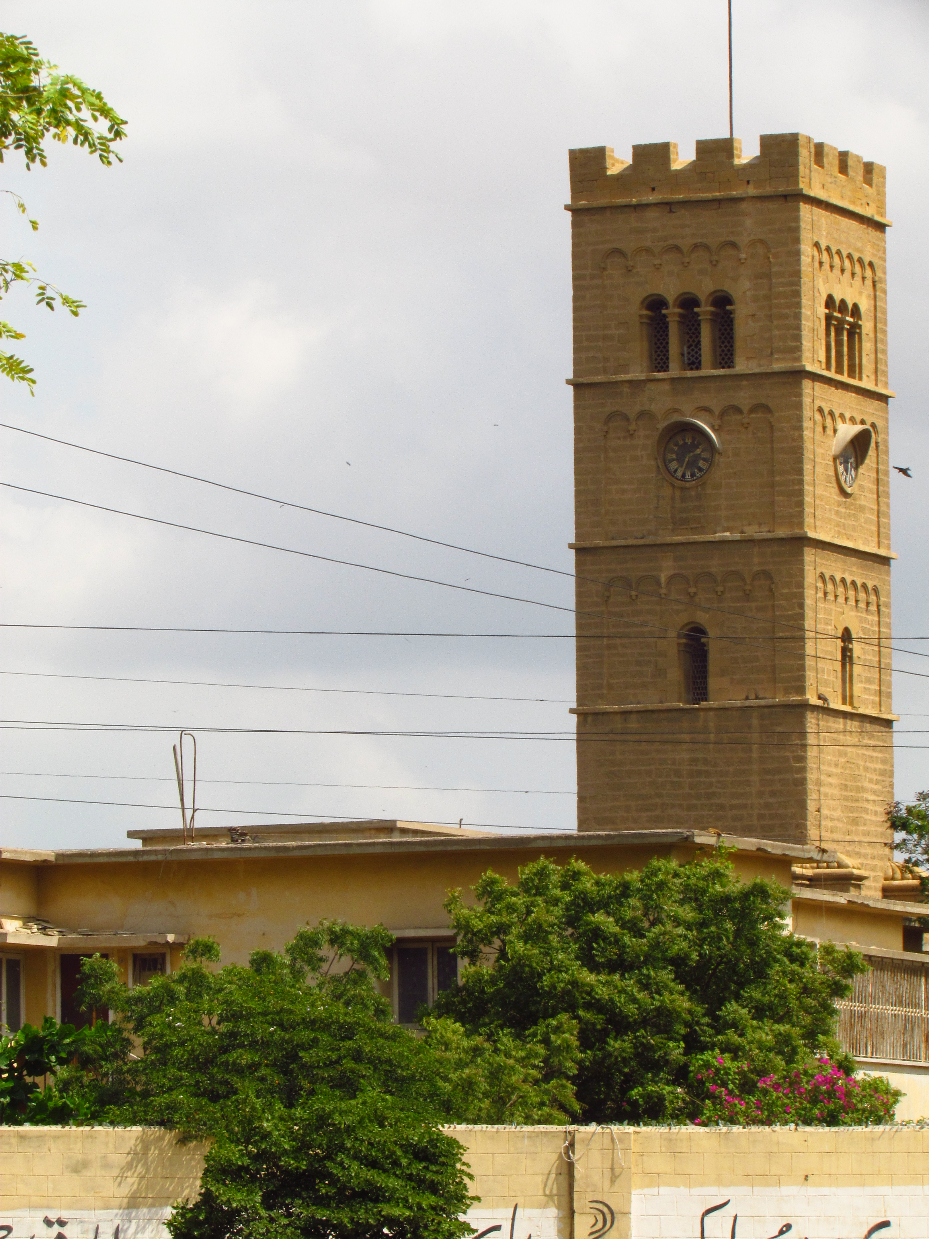 Holy Trinity Cathedral This is a photo of a monument in Pakistan identified as the SD-P-53